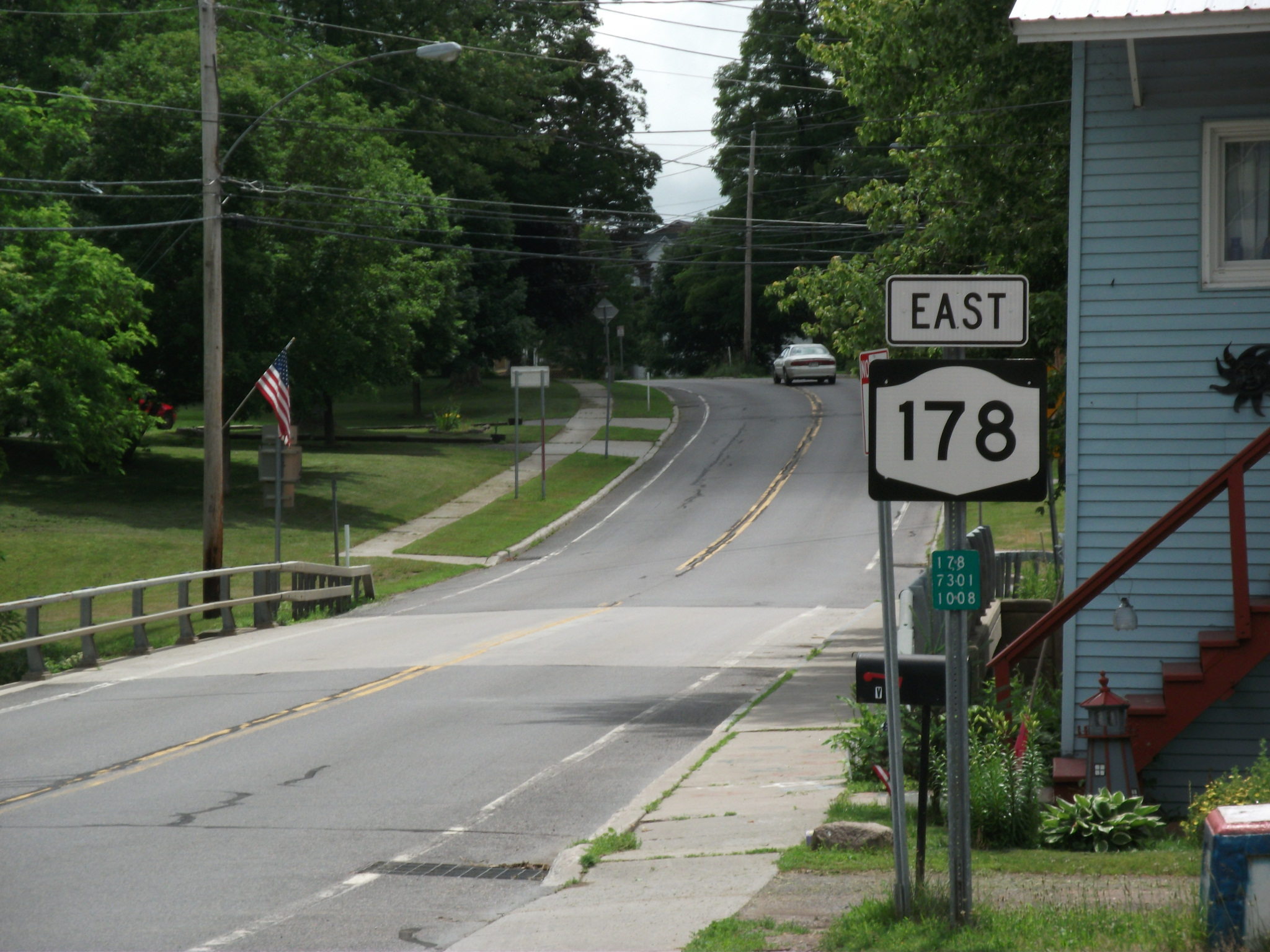 New York State Route 178 heading eastbound past milepost .8 in Henderson, New York.